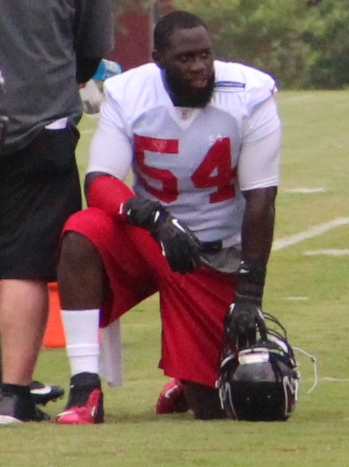 Stephen Nicholas at Falcons training camp, 2013